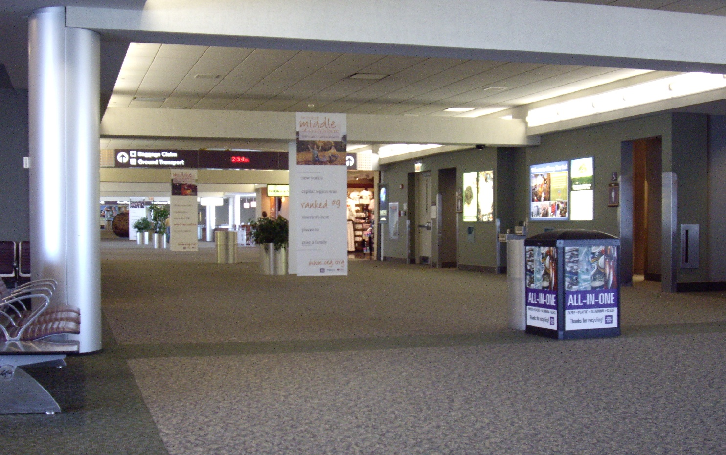 Albany Airport terminal. Saturday, June 18, 2011, 2:54 pm.